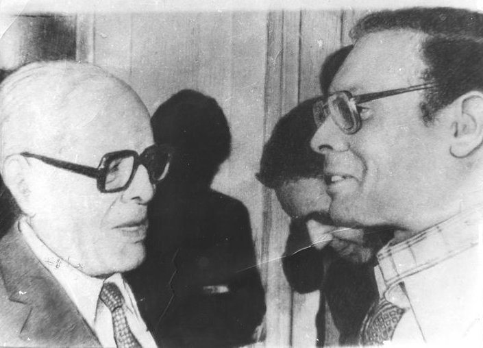 Tunisian Presidents Bourguiba and Marzouki